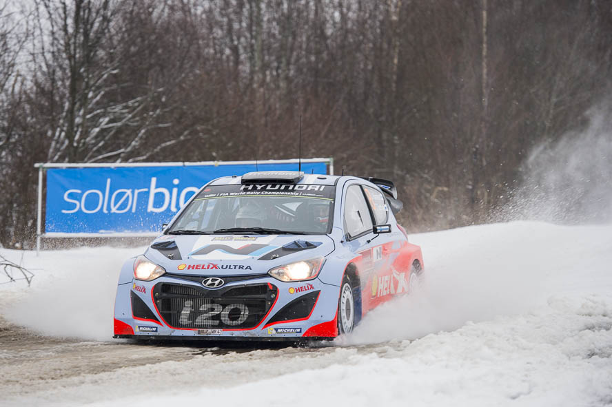 Rally Sweden 2014 Hyundai Motorsport,Hyundai i20 WRC,Juho Hänninen,Kirkener 1,Motorsport,Rally,Rally Sweden,Rallye,Rallye Schweden,SS3,Tomi Tuominen,WP3